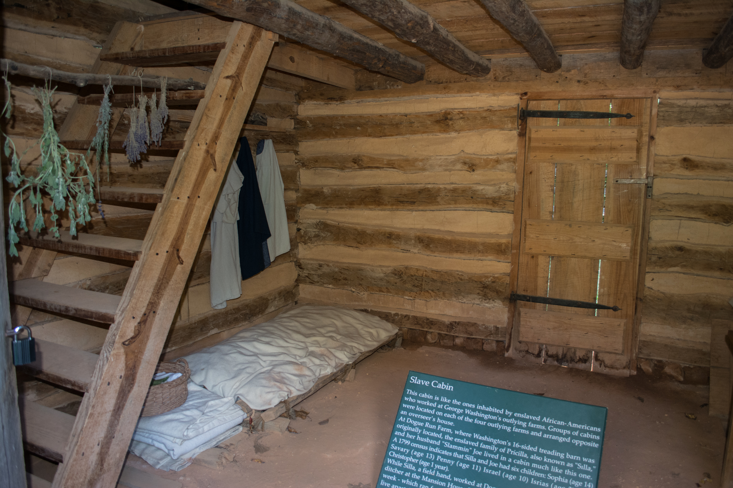 Standing in the entrance to the Slave's Cabin, looking left, on the Pioneer Farm at Mount Vernon, the home of George Washington, near Mount Vernon, Virginia, in the United States.